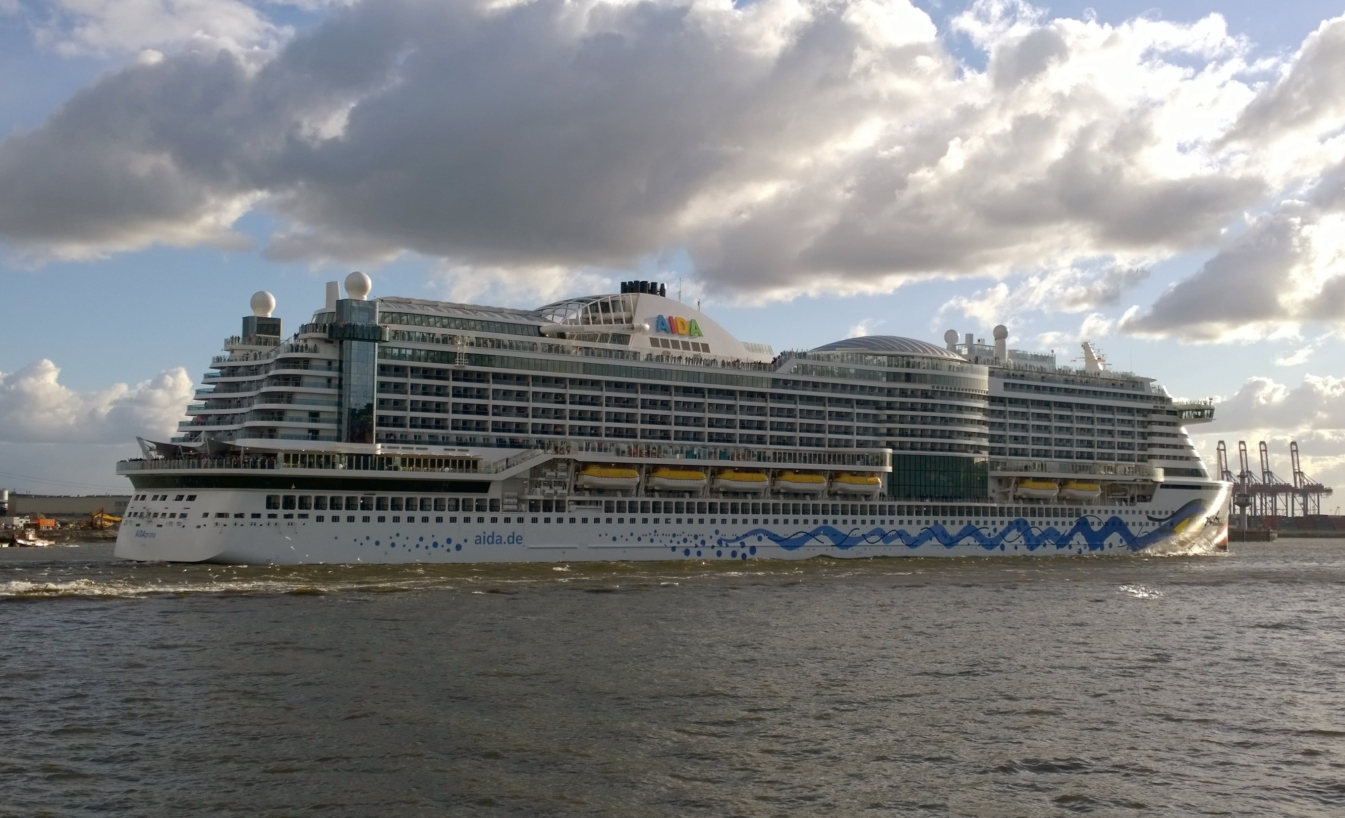 The Aidaprima in Hamburg harbor in April 2016